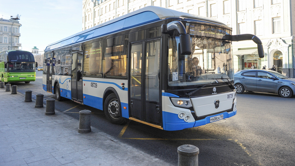 Electrobus LiAZ-6274 in Moscow city